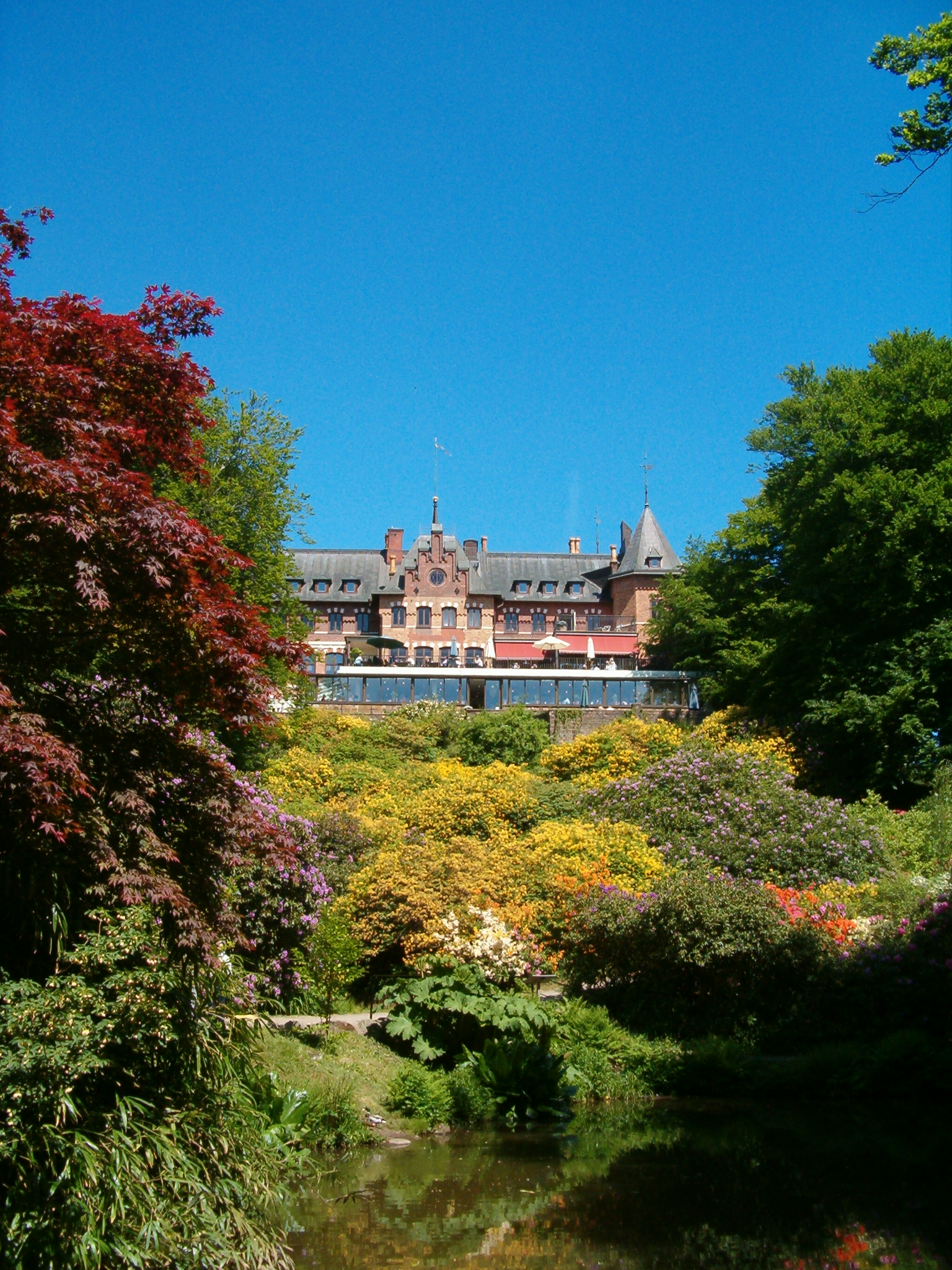 Sofiero castle in Helsingborg, Sweden